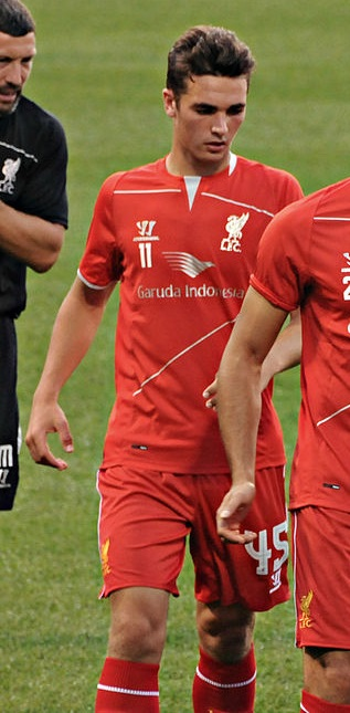 English association football player Adam Phillips at a warm-up before a friendly game Liverpool FC v AS Roma at Fenway Park in Boston.